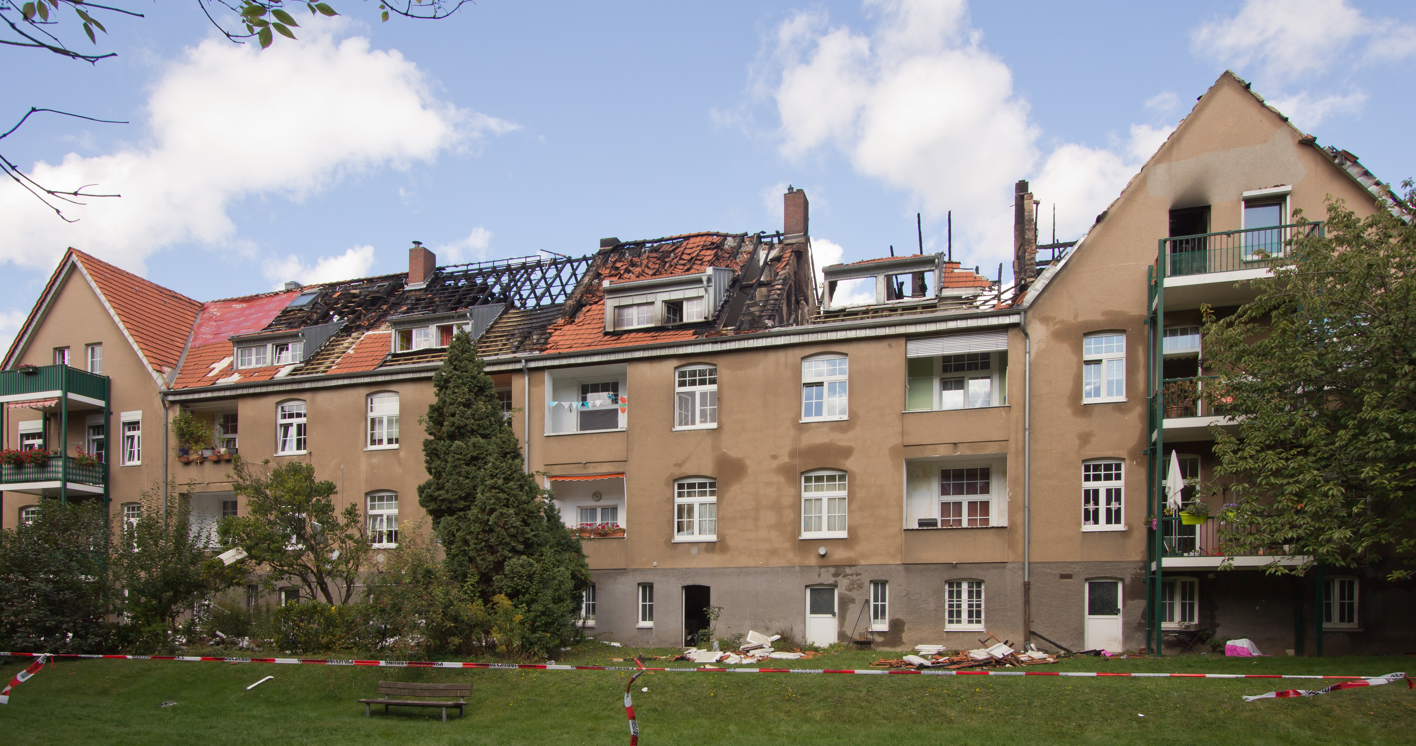 Protected buildings of historical workers settlement, built around 1912, burned down September 21, 2012. Cologne, Neuehrenfeld, Lansstraße 1-31This is a photograph of an architectural monument.